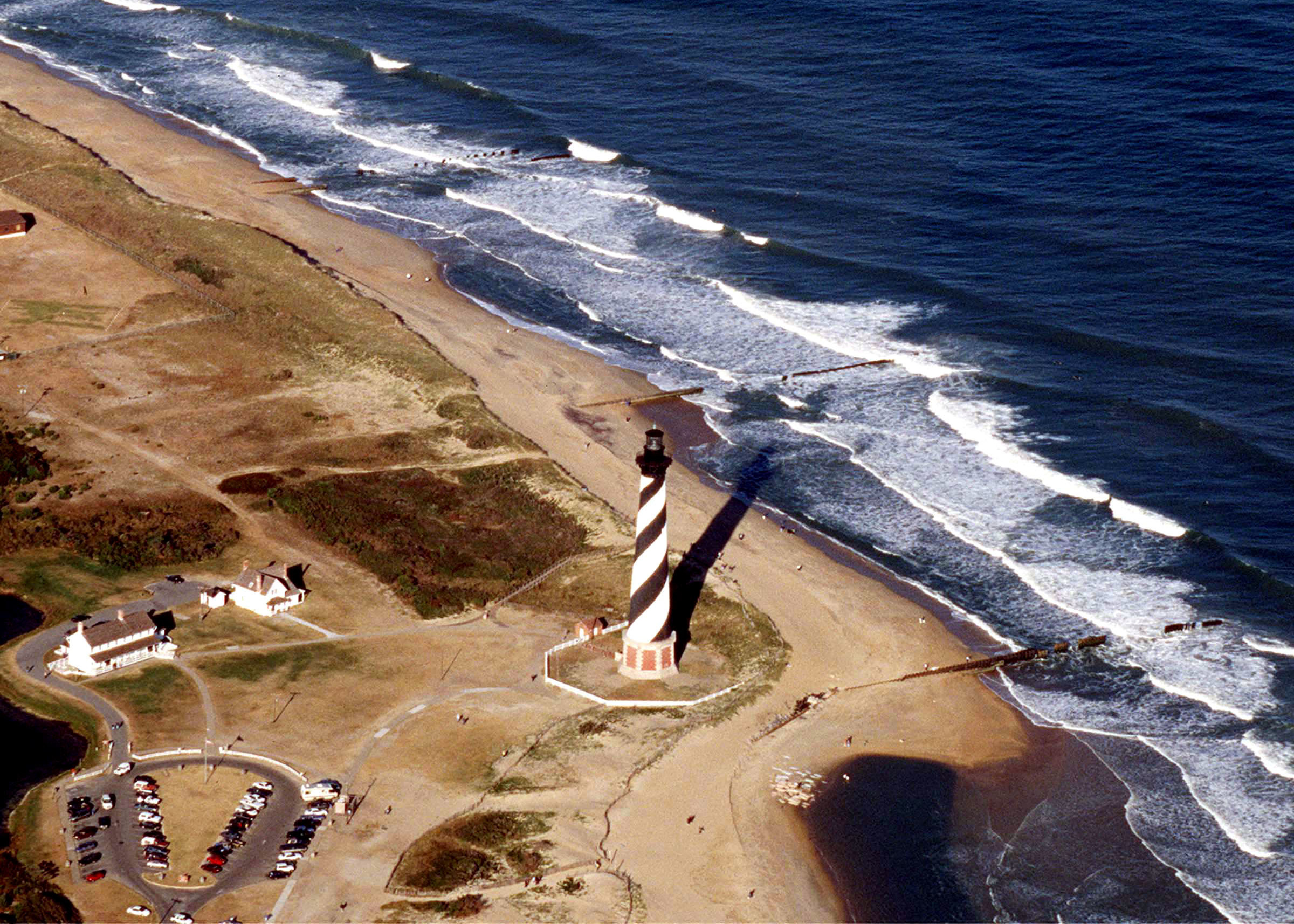 A U.S. Air Force C-130E Hercules flies over the Cape Hatteras Lighthouse on the North Carolina coast on Jan. 1, 1999. The Hercules is the Air Force's main transport for intratheater airlift. Capable of operating from rough, dirt, landing strips, the aircraft is the prime transport for dropping paratroops and equipment into hostile or remote areas. This Hercules is attached to the 2nd Airlift Squadron, Pope Air Force Base, N.C.